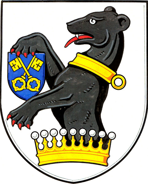 Municipal coat of arms of Ratměřice village, Benešov District, Czech Republic.